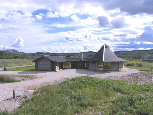 Kainun instituutti in Pyssyjoki, Norway